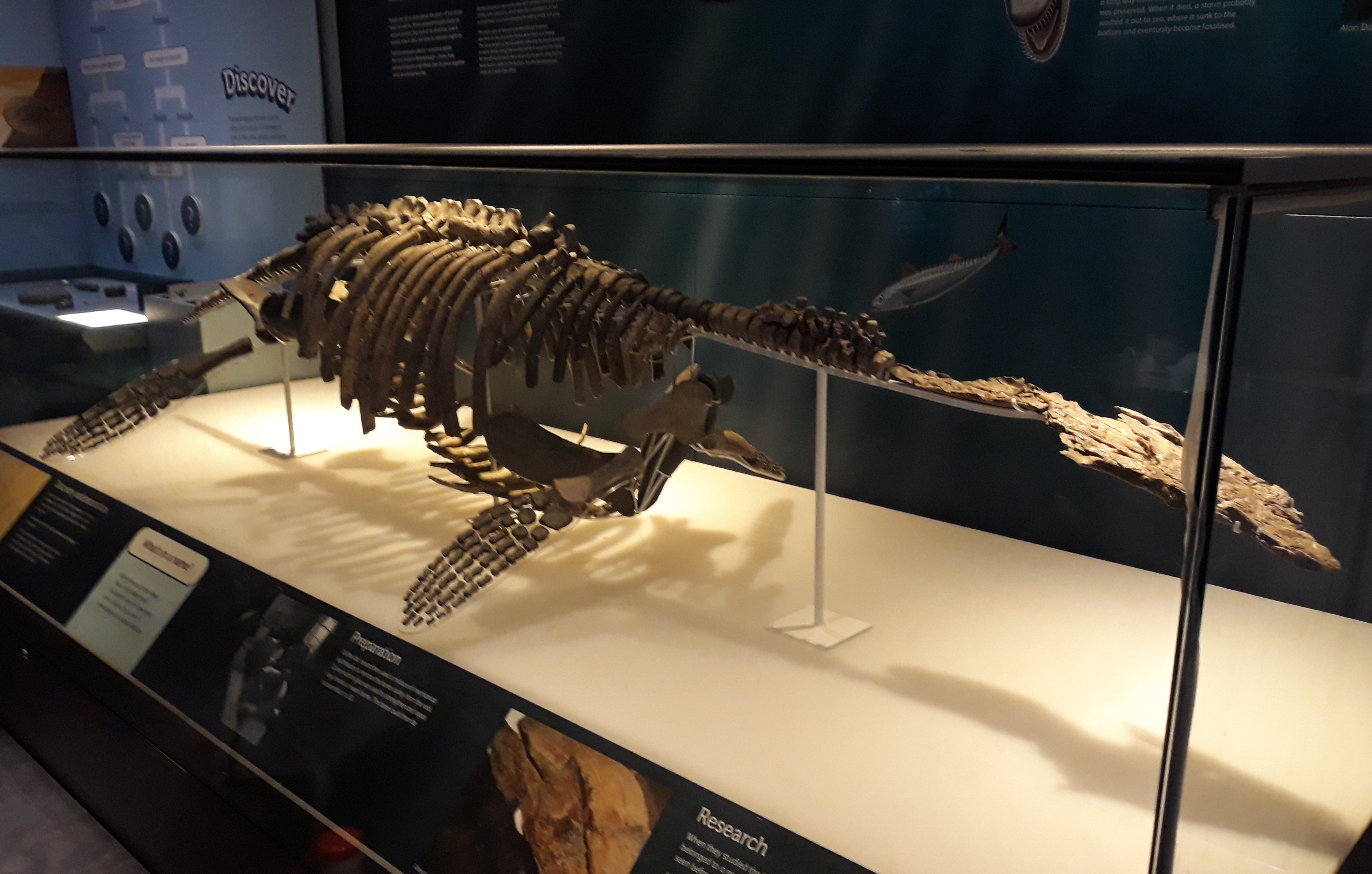 Pachycostasaurus at the Peterborough museum